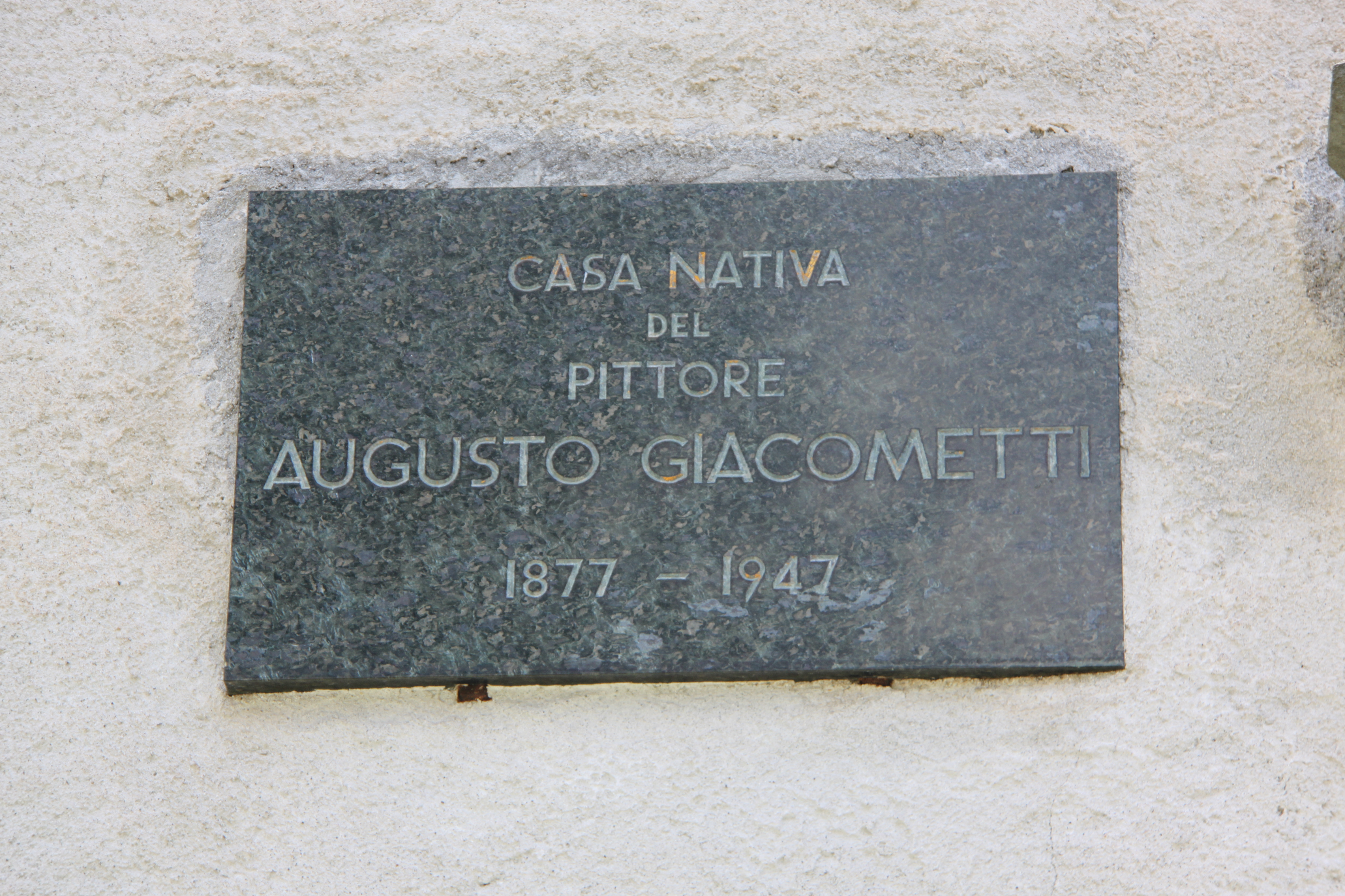 Plaque on the wall of Augusto Giacometti's house in Stampa, Switzerland